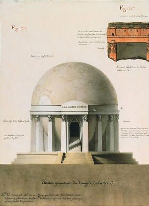 Élévation géométrale du temple de la Terre, drawing by J-J Lequeu from his manuscript Architecure Civile, 1794. Paris, BnF.